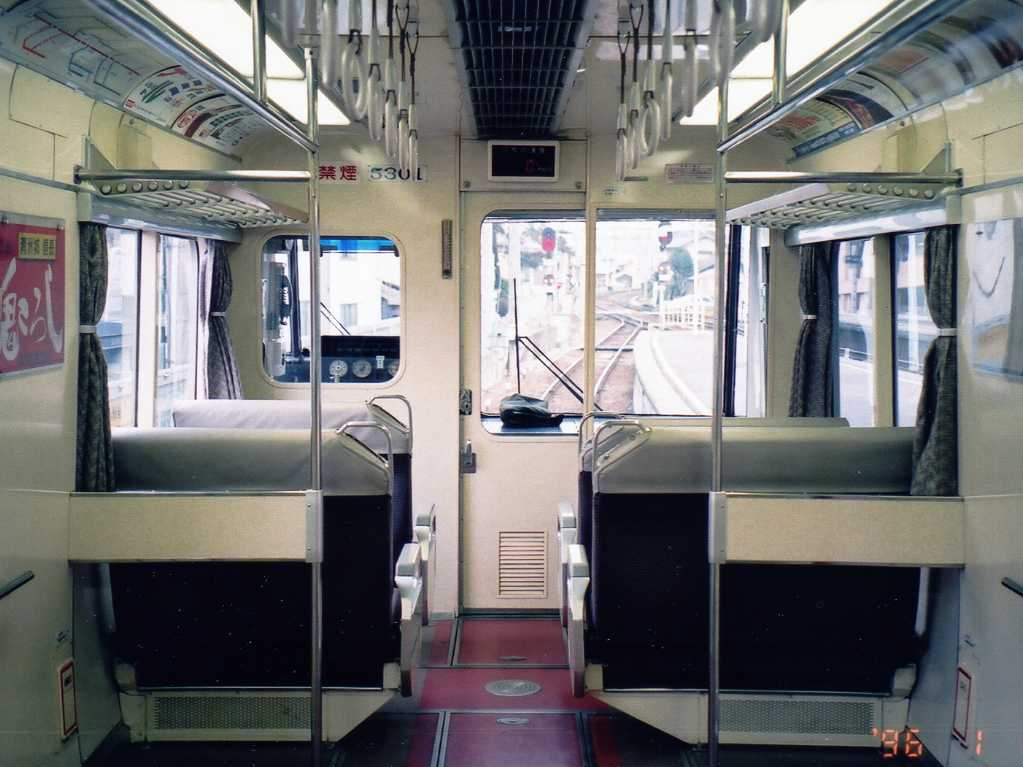 Inside of Nagoya Railroad EMU type 5300 At Higashi-Okazaki Sta.